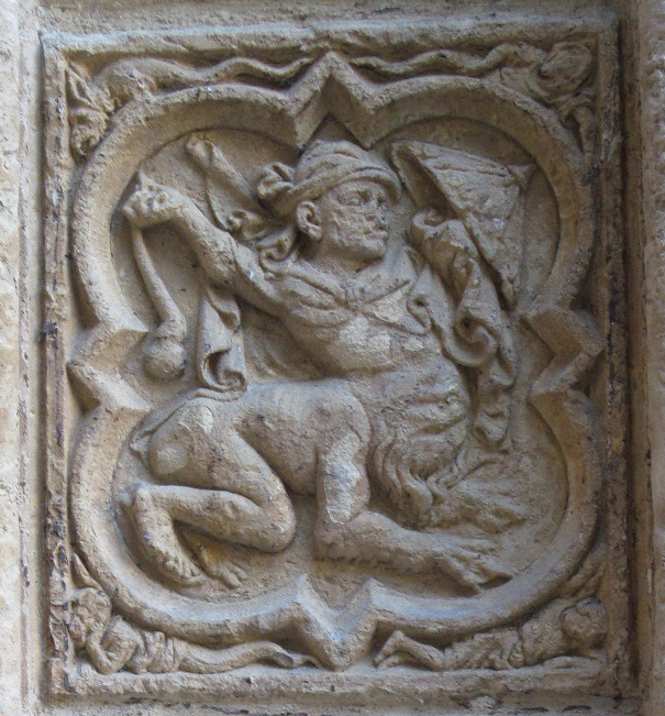 Rouen cathedral reliefs, August 2009